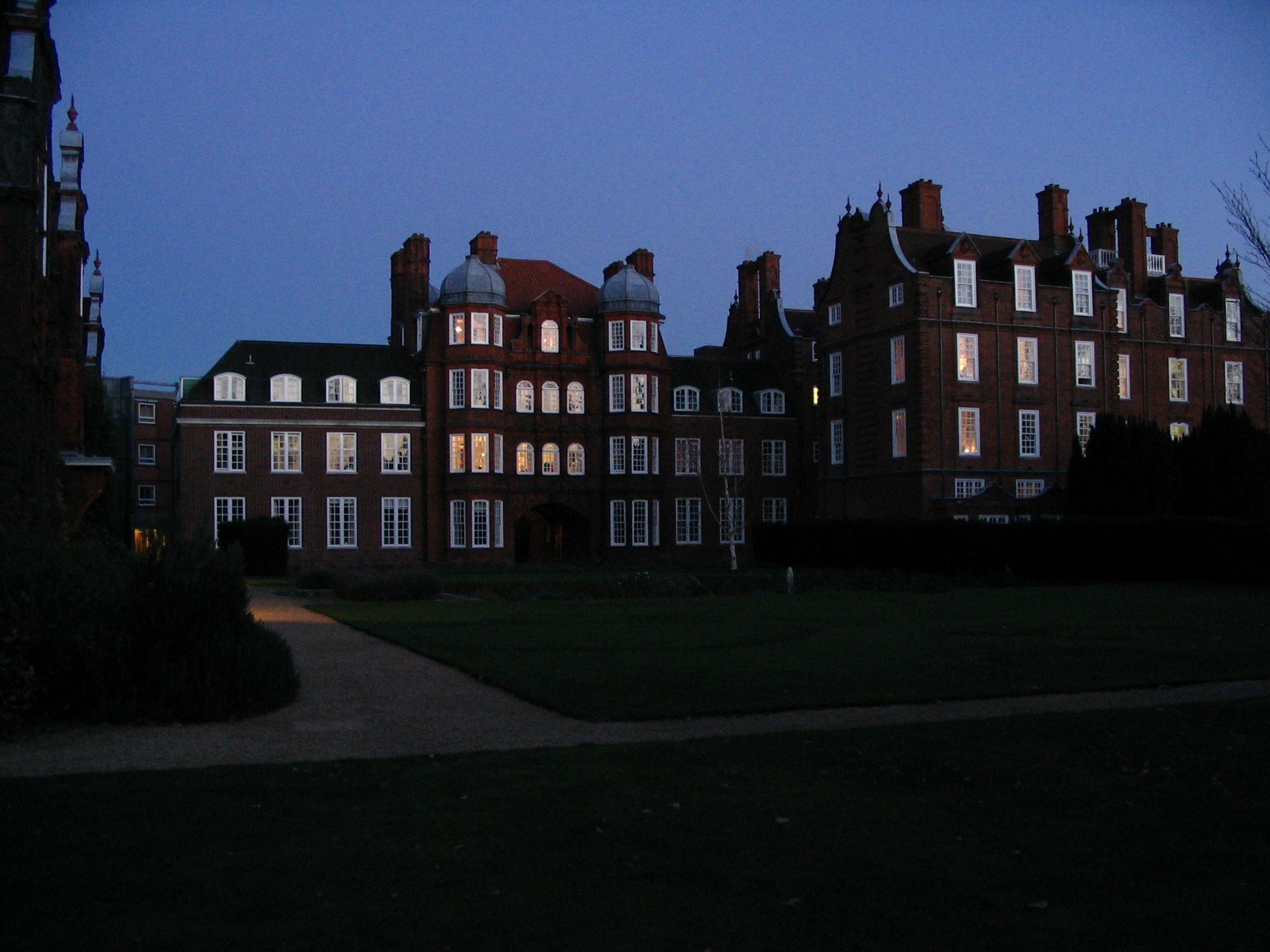 Newnham College, Cambridge